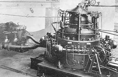 Photo of the prototype of the Holzwarth gas turbine installed at the Körting facilities in Hannover, Germany